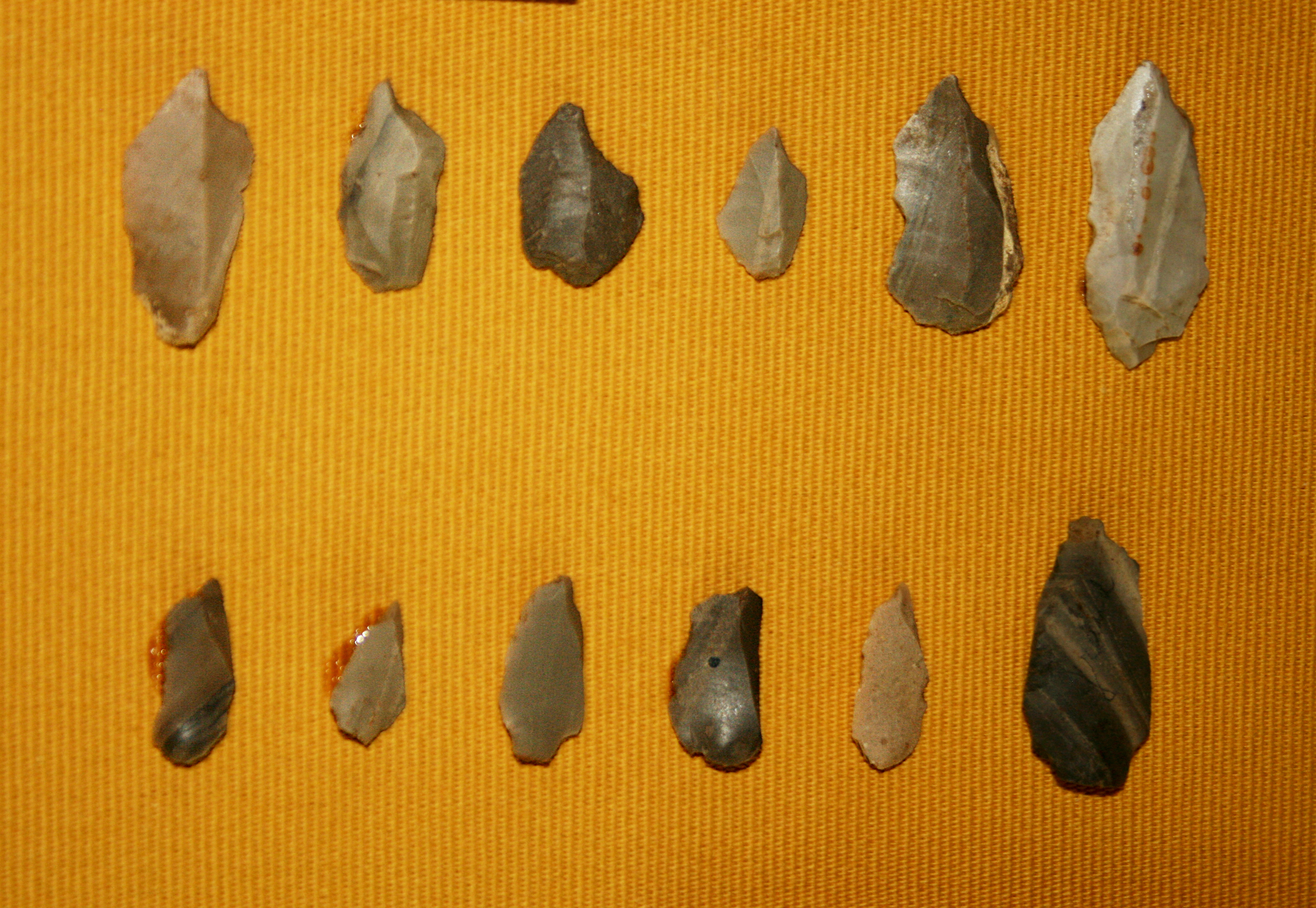 Flint tardenoisian points Stage : Middle Paleolithic (to - 300 000 years from - 40 000 years Before the Current Era) Locality : Hauts de Lutz, Beaugency, Loiret, France